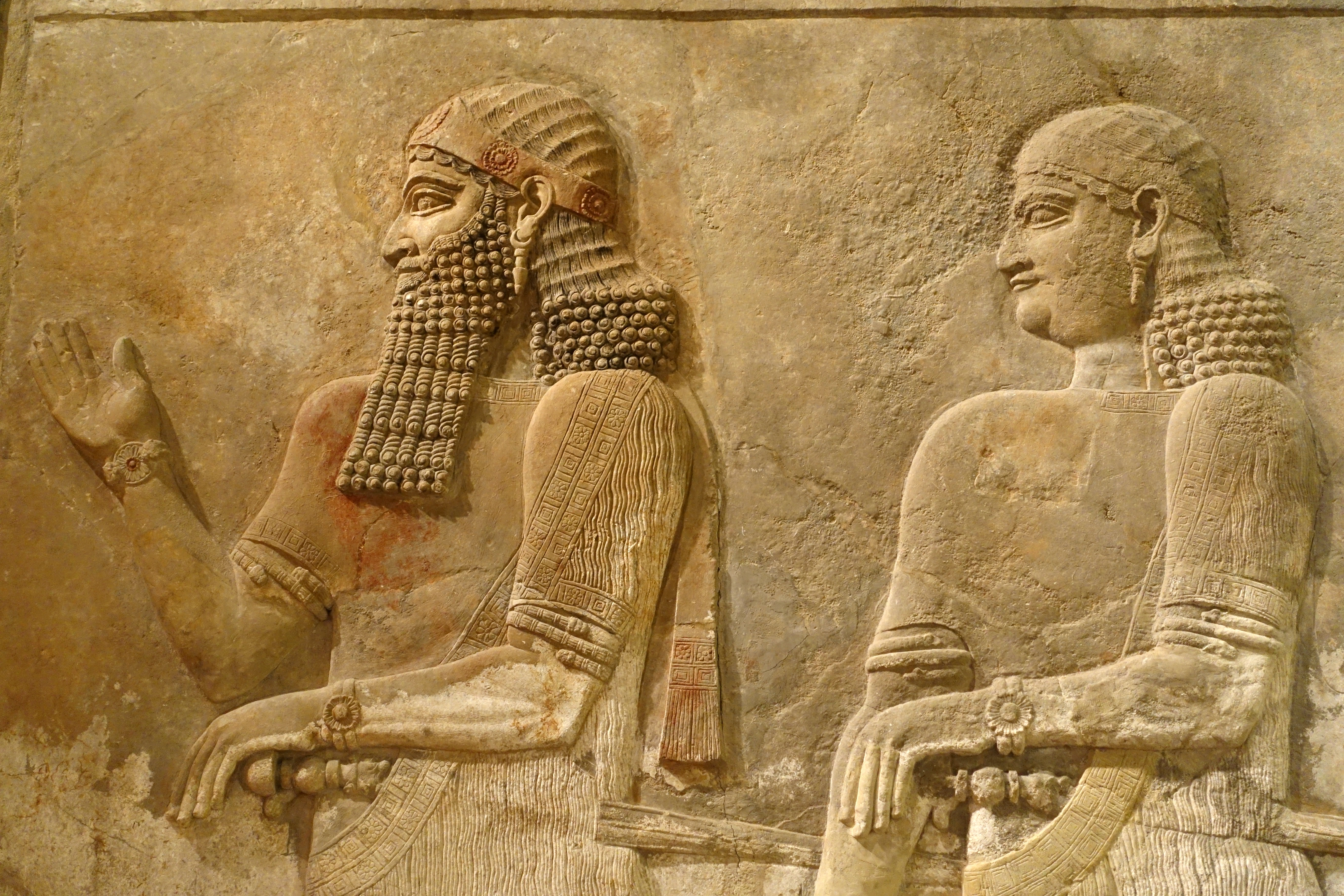 Exhibit in the Oriental Institute Museum, University of Chicago, Chicago, Illinois, USA. This work is old enough so that it is in the public domain.